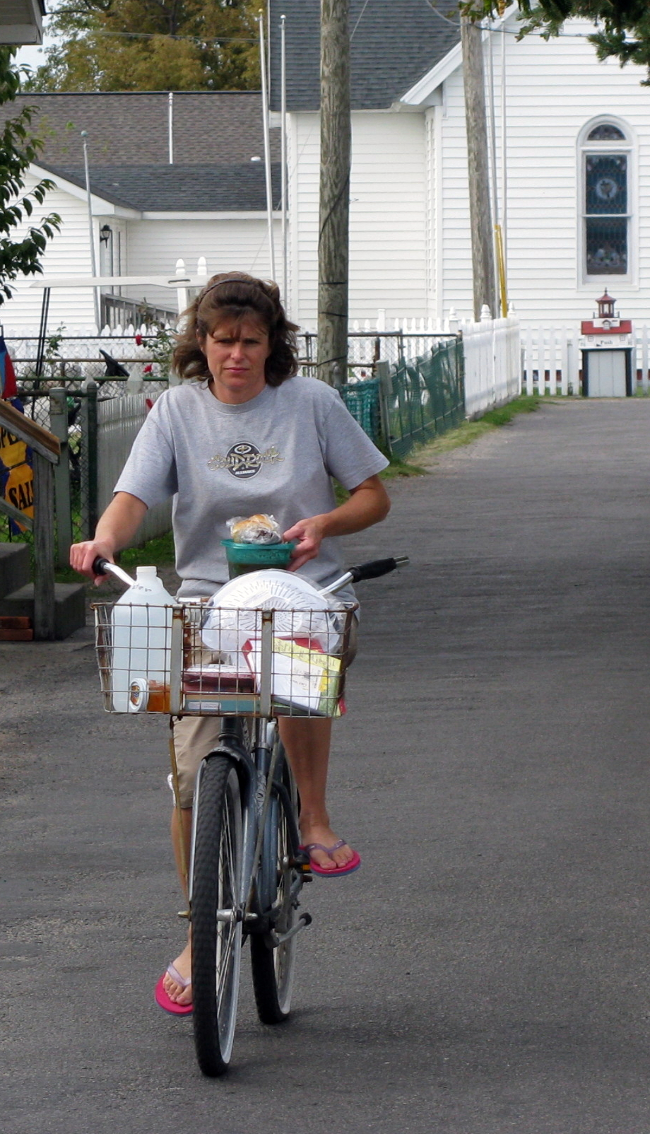 Typical transport on the island.